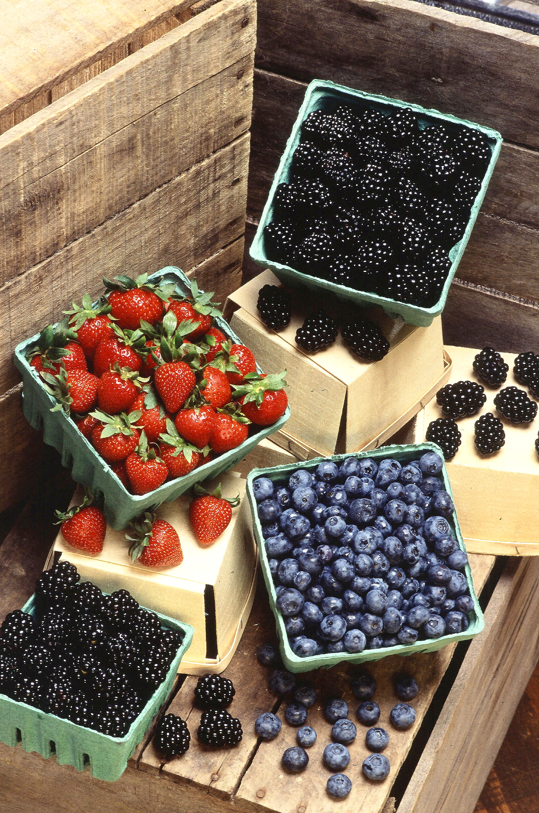 Image of Strawberries, Blackberries and Blueberries. Original caption: “A bowl of berries is a treat for the eye as well as a delight for the palate. But these tasty little morsels happen to be quite tricky to grow, harvest, and handle. These crops tend to have brief growing seasons and are vulnerable to insects, disease, and even birds, so ARS scientists have given them lots of attention. Take strawberries. In the 1950's, ARS actually saved the strawberry industry in the Great Lakes region when we released the first varieties that could survive red stele, a root-rotting fungus. We're also old hands at strawberry breeding. ARS came up with such June-bearing favorites as Earliglow, a sweet and juicy berry with a wonderful flavor. We've also bred berries that bear fruit from spring until well into the fall like Tribute and Tristar, which have brought new market opportunities to Northwest strawberry growers. Fifteen years ago, blueberries were practically nonexistent in the Persian Gulf states. But our early-ripening varieties have extended highbush blueberry culture to the Deep South. Today, over 10,000 acres are grown in Dixie, with more than 4,000 acres thriving throughout Texas, Louisiana, and Alabama. In the Pacific Northwest, where most of our red raspberries are grown, Willamette, a 1943 release, still accounts for 40 percent of the red raspberry acreage. And, when USDA blackberry breeders introduced the first truly genetic thornless blackberries, Thornfree and Smoothstem, they caused a small roadside revolution. The new varieties were just what some growers needed to establish pick-your-own operations.”